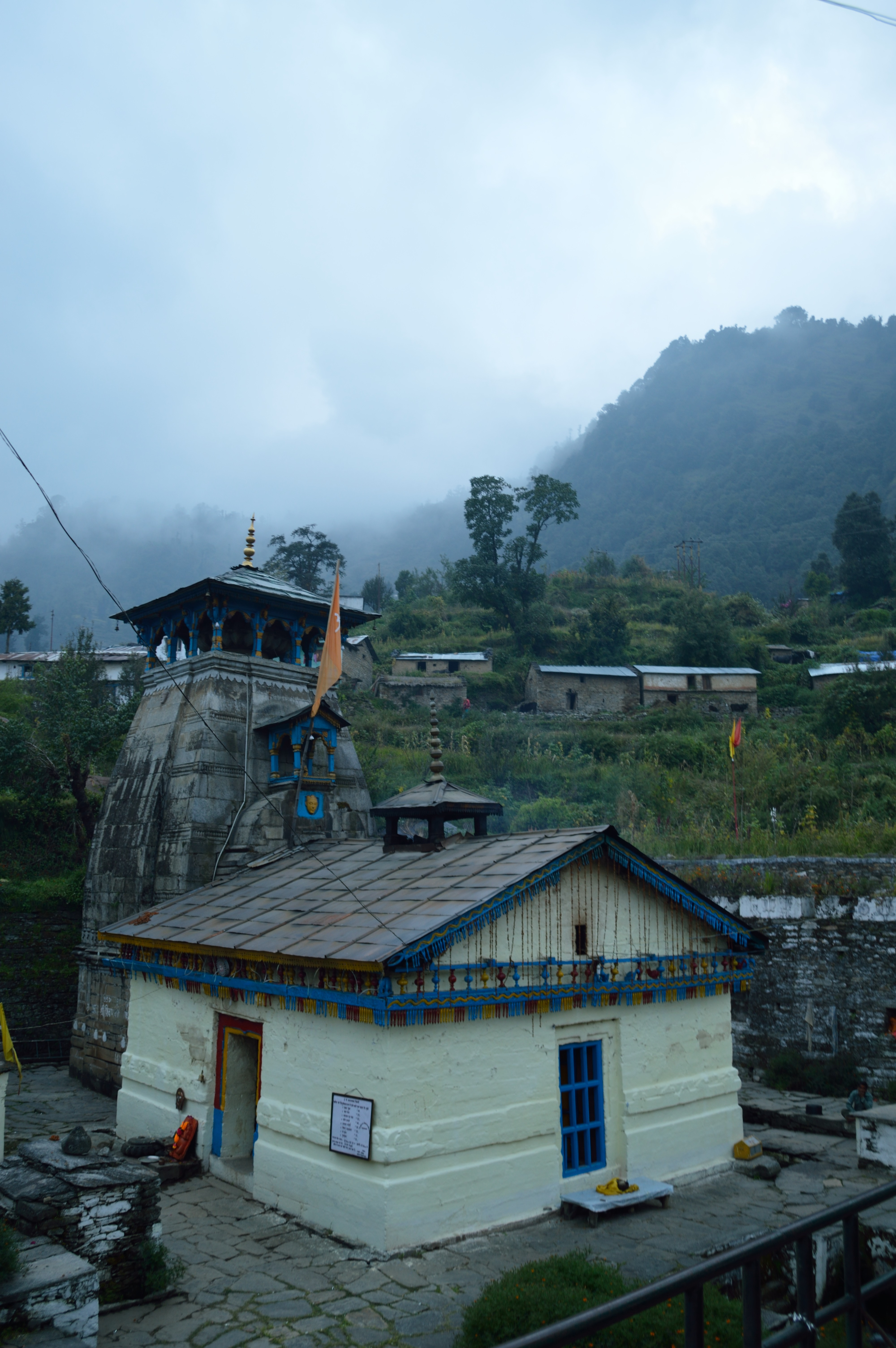 Triyuginarayan Temple - OCT 2014 Pic1